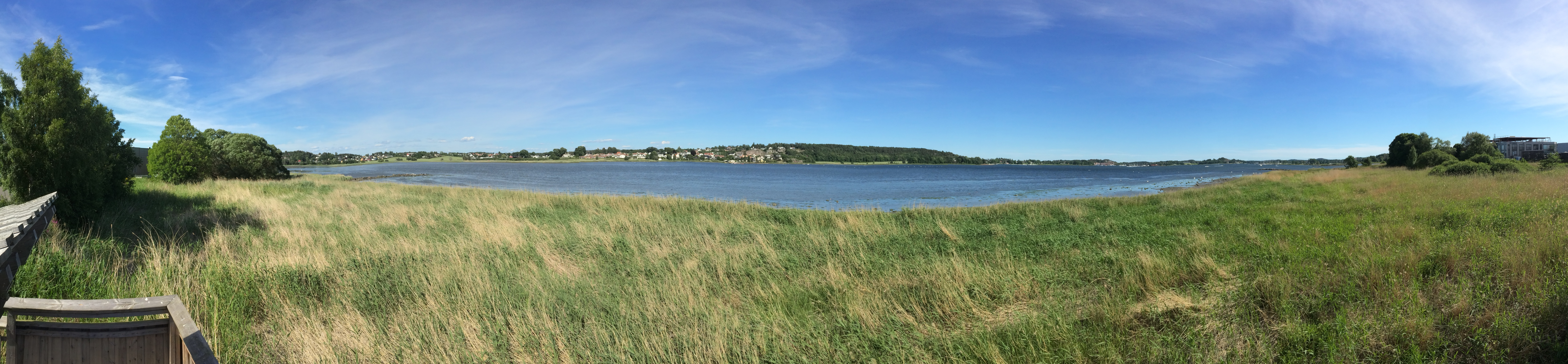 (iPhone panoramic photo, distortions may occur in details and continuity.)